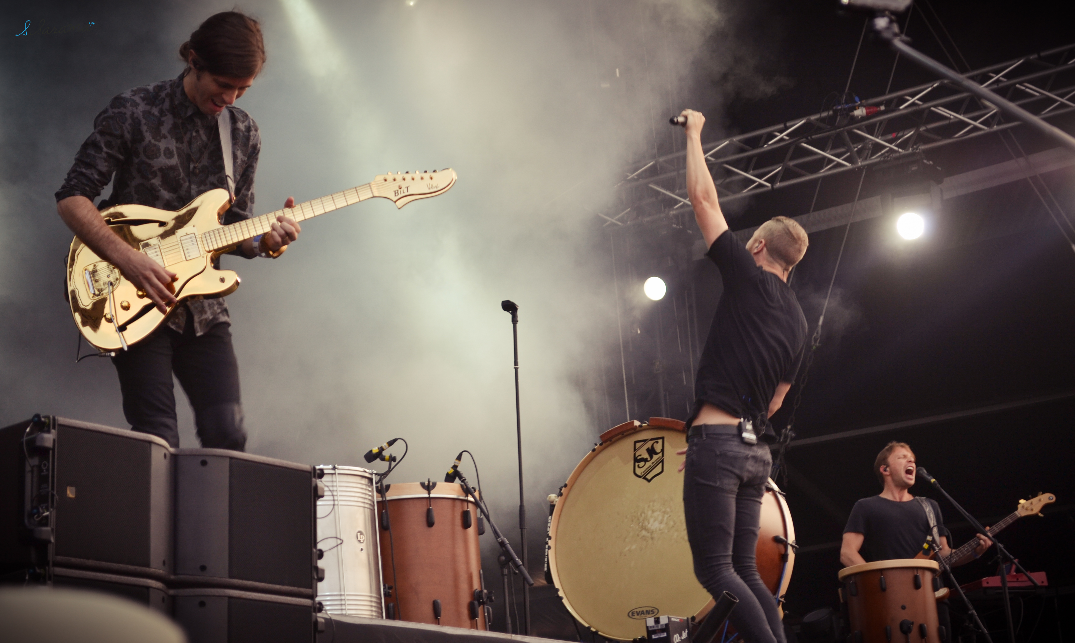 Imagine Dragons live at Sziget Festival 2014